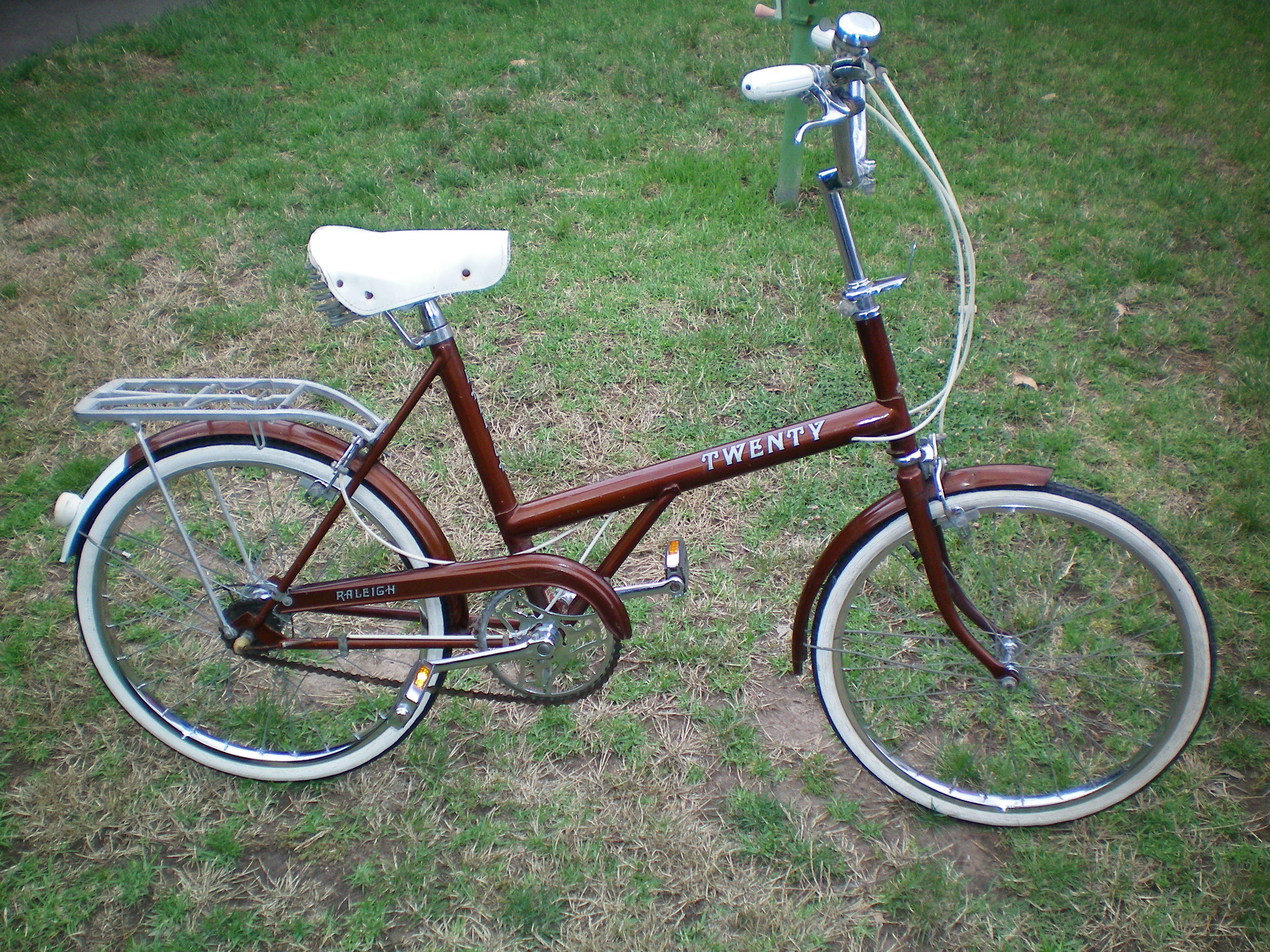 Photo of non-folding, 1975 three speed Raleigh Twenty. Photo taken by myself